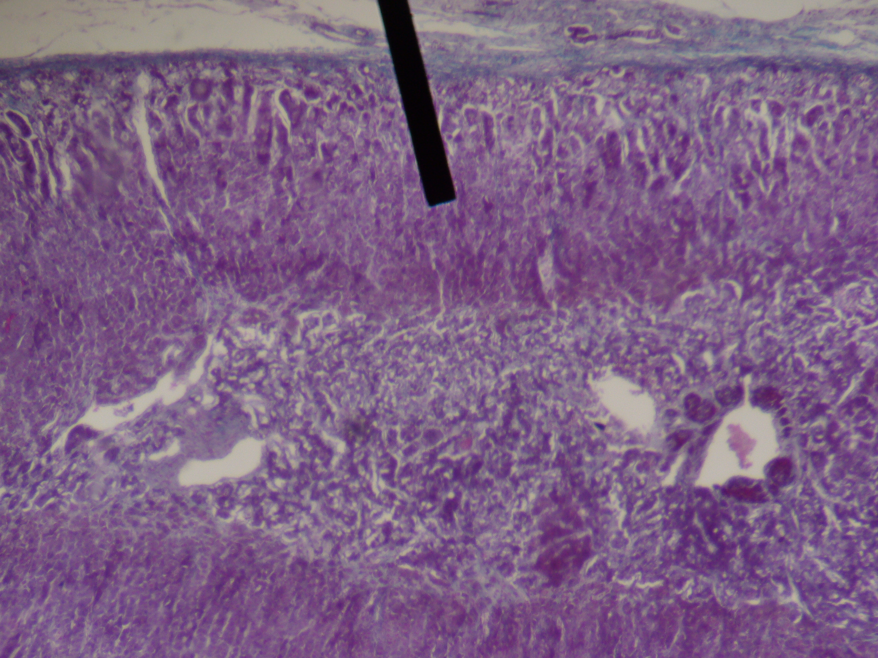 Author's own picture. Digital camera shot though a microscope; human adrenal gland (Zona fasciculata). Author's own picture. Digital camera shot though a microscope; human adrenal gland (Zona fasciculata).